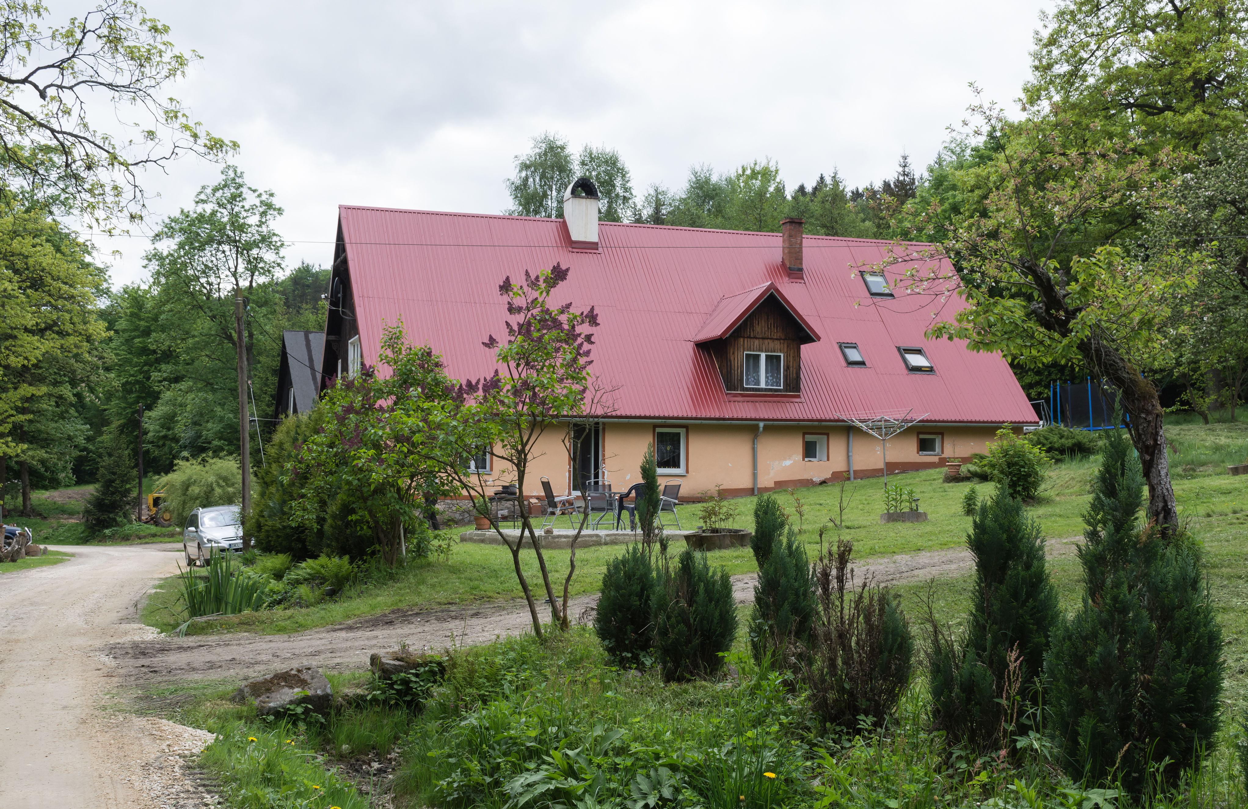 Forester's lodge in Karpno